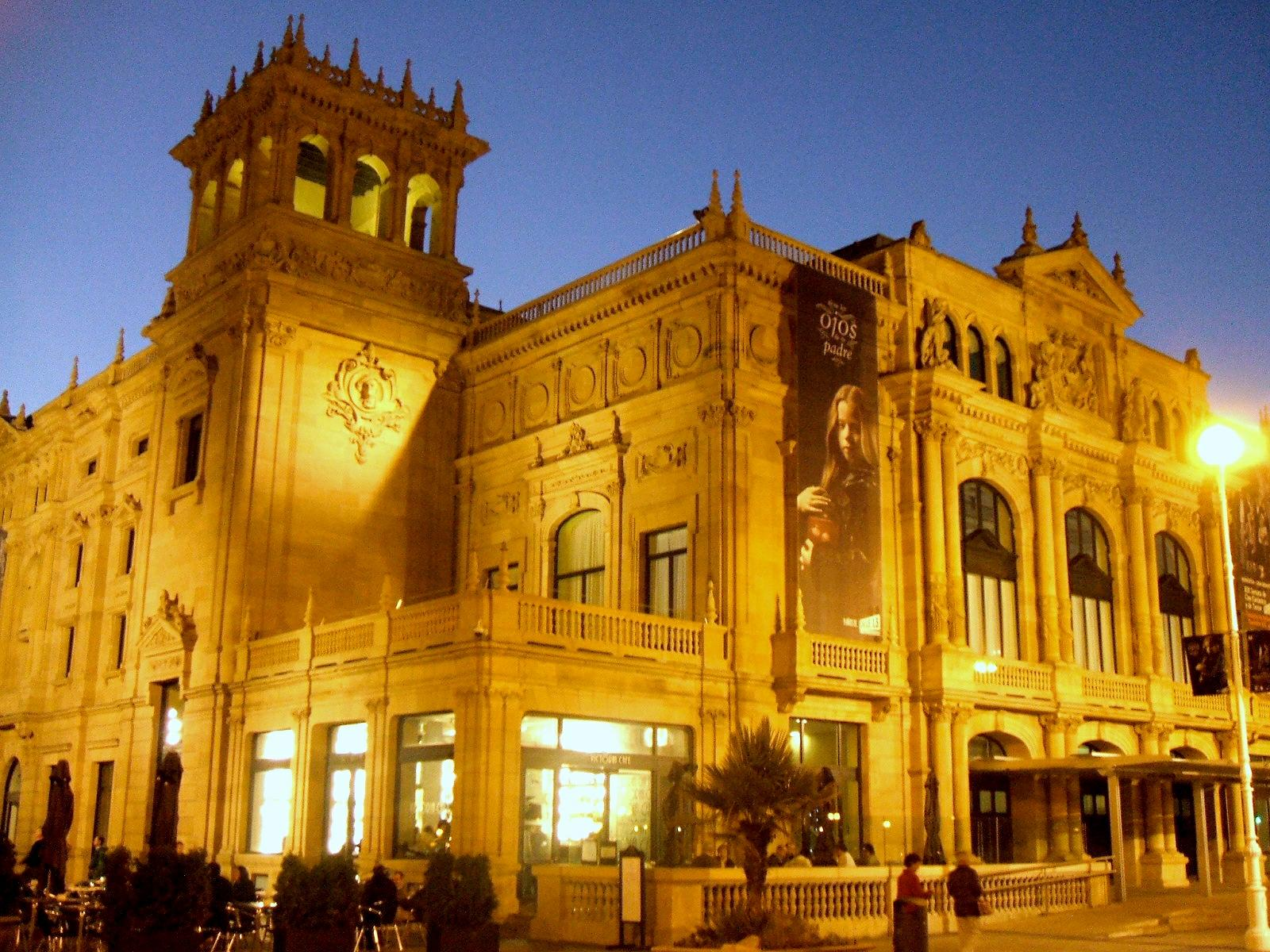 Teatro Victoria Eugenia, San Sebastián (País Vasco, España)